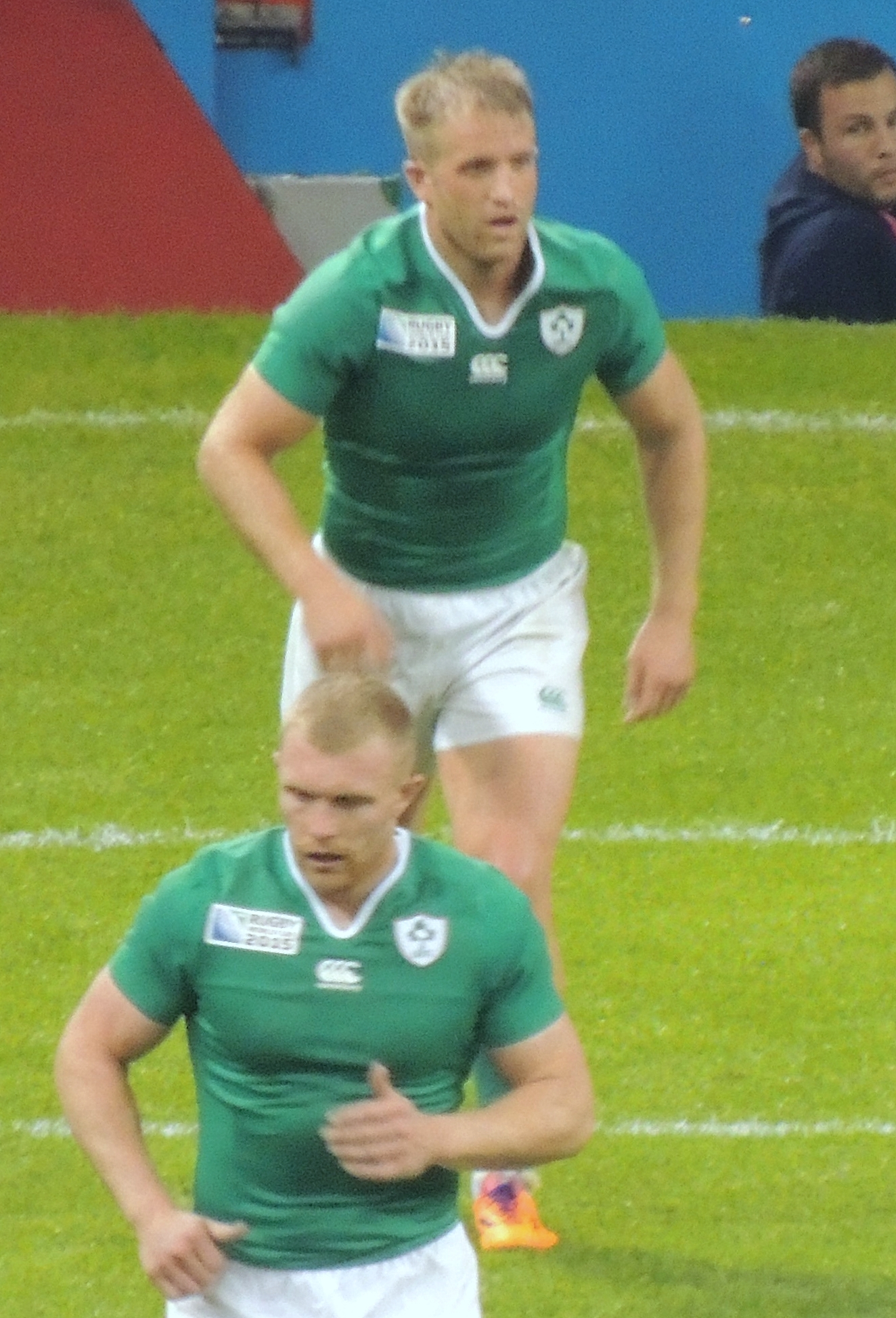 Irish rugby union player Luke Fitzgerald playing in 2015 Rugby World Cup game Ireland vs Canada at Millennium Stadium in Cardiff.